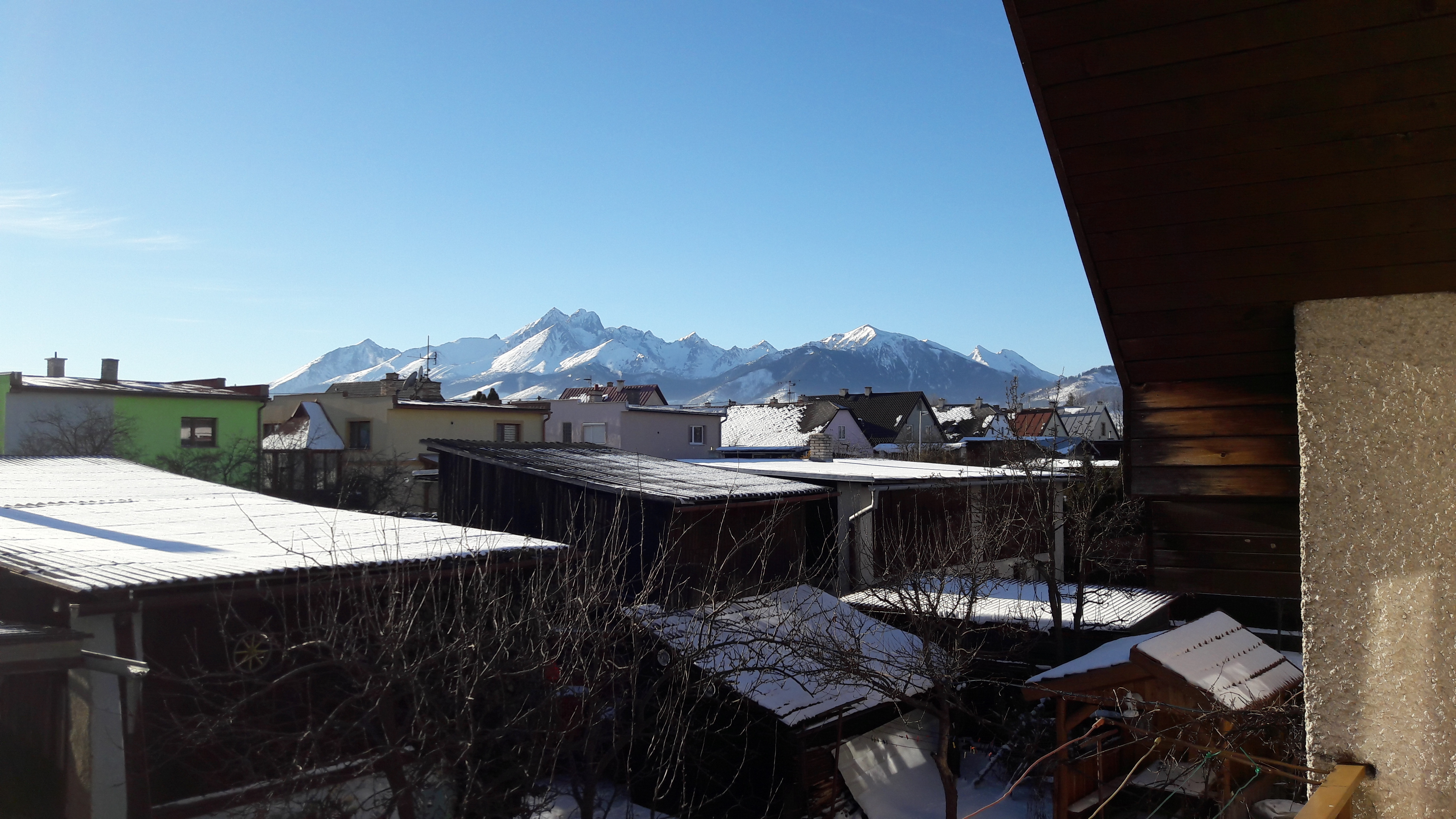 View to the High Tatras from the Slovenska Ves